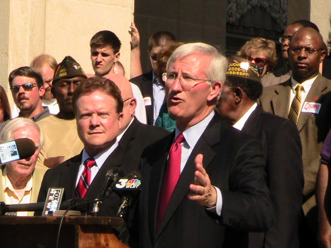 Senate candidate Ronnie Musgrove and Sen. Jim Webb (VA) speak out in favor of veterans in Jackson, MS. credit: Alex Hogan